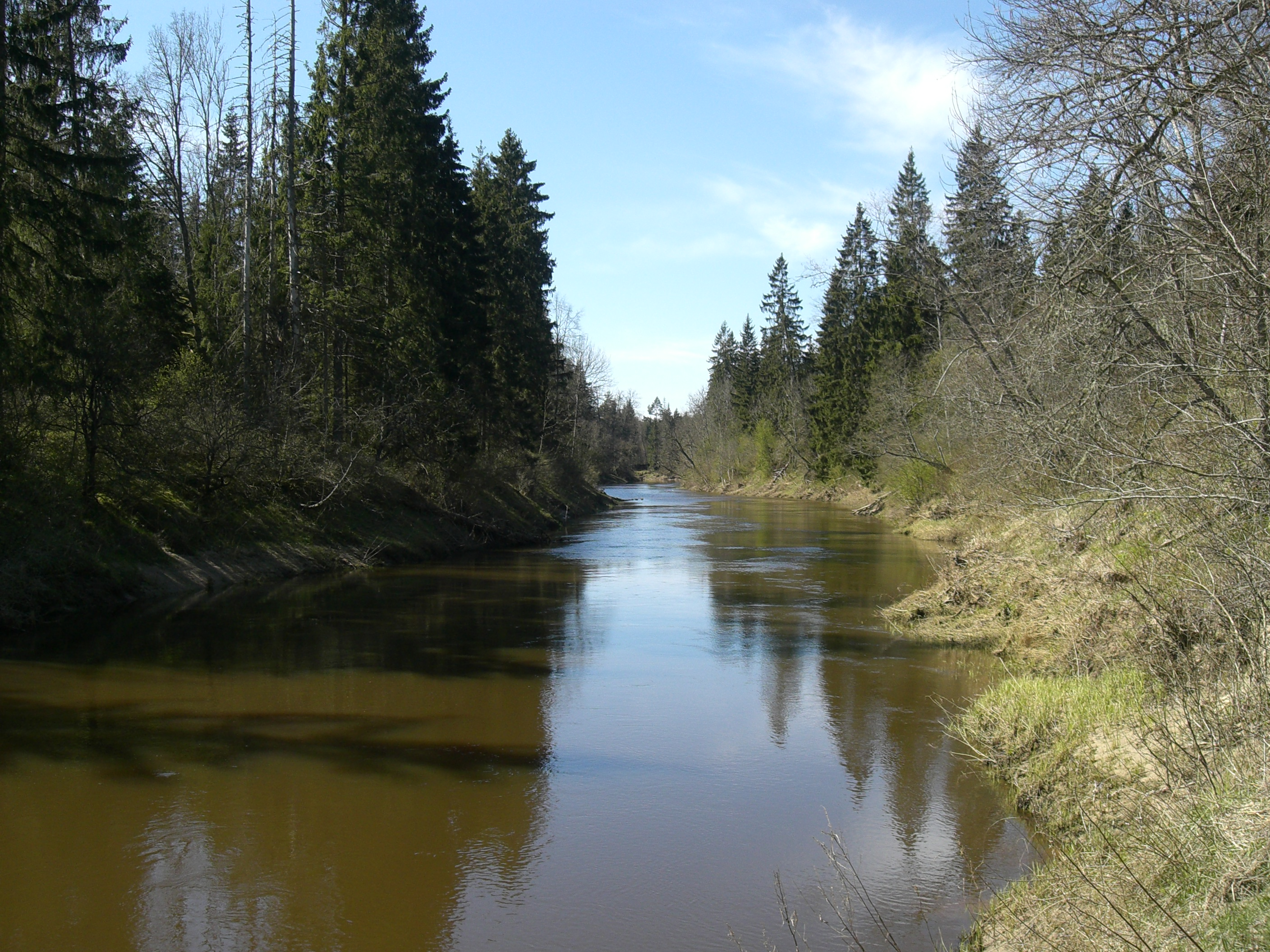 Abava River near monument Māras kambari in Latvia.